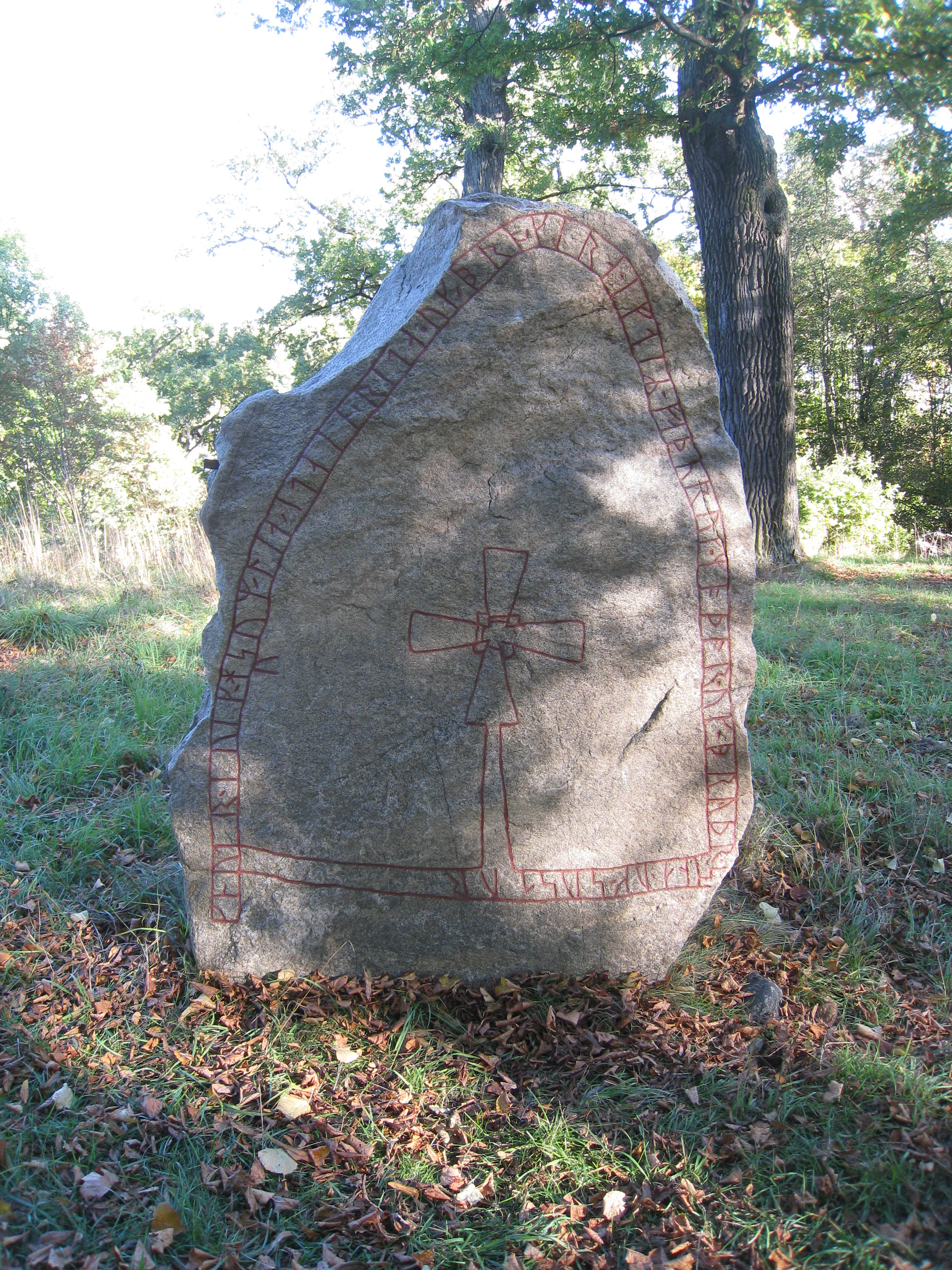 Runestone, Järfälla municipality, Sweden, "Upplands runinskrifter U92, Vibble", today at Jakobsbergs folkhögskola, Järfälla.